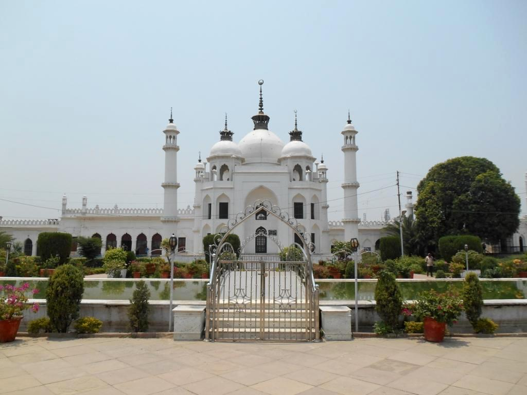 Tomb of Princess Zinat Algiya, daughter of King Mohammad Ali Shah Bahadur (3rd King of Awadh). Taj Mahal Replica